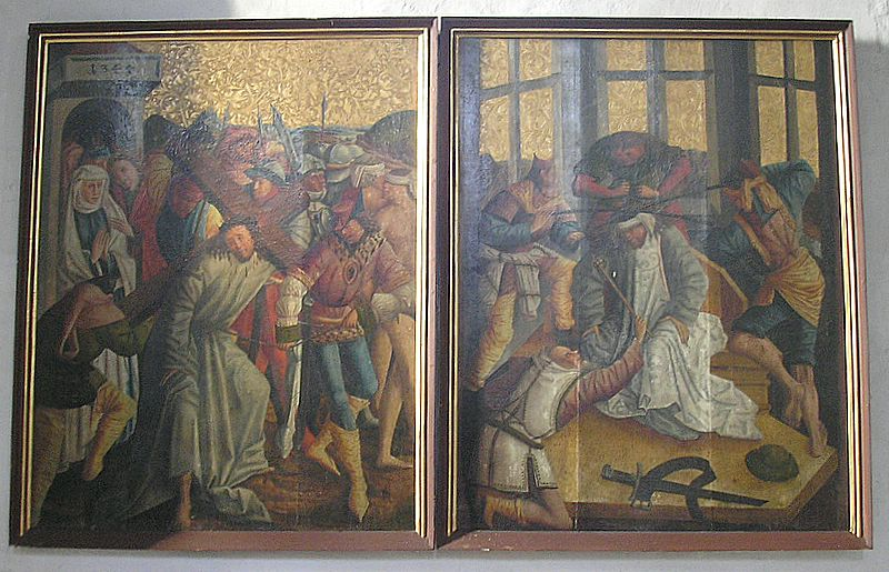 Parish and collegiate church of Our Lady (Laufen an der Salzach, Landkreis Berchtesgadener Land, Upper Bavaria, Germany). Late gothic paintings of the medieval high altar (1467)